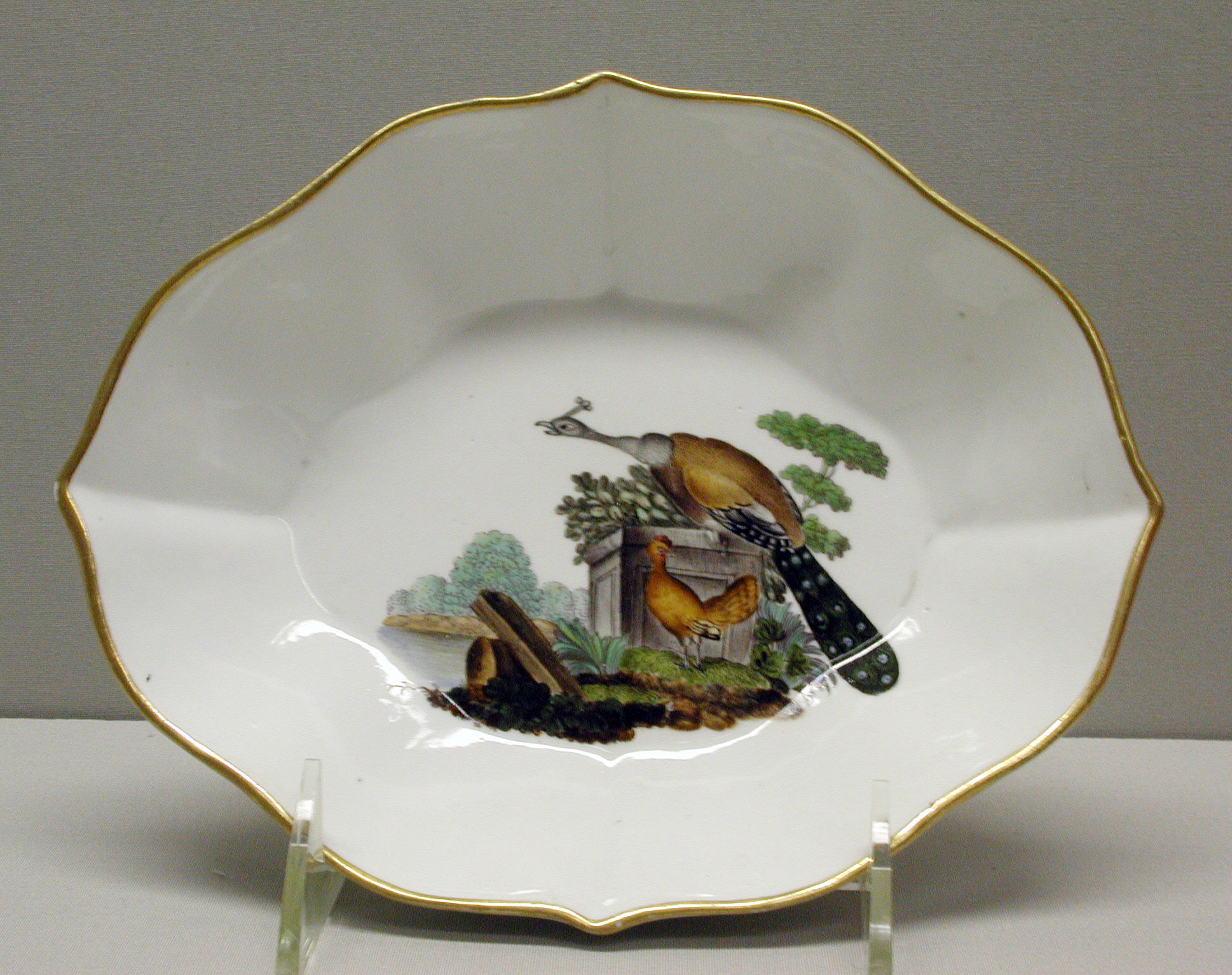 German; Spoon tray; Ceramics-Porcelain